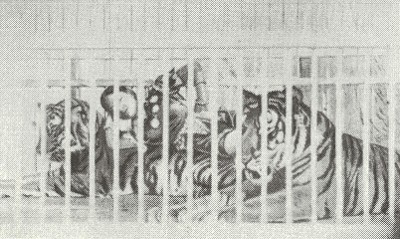 Sushila Sundar inside the tiger's cage, reclining between two tigers named Shumbha and Nishumbha.